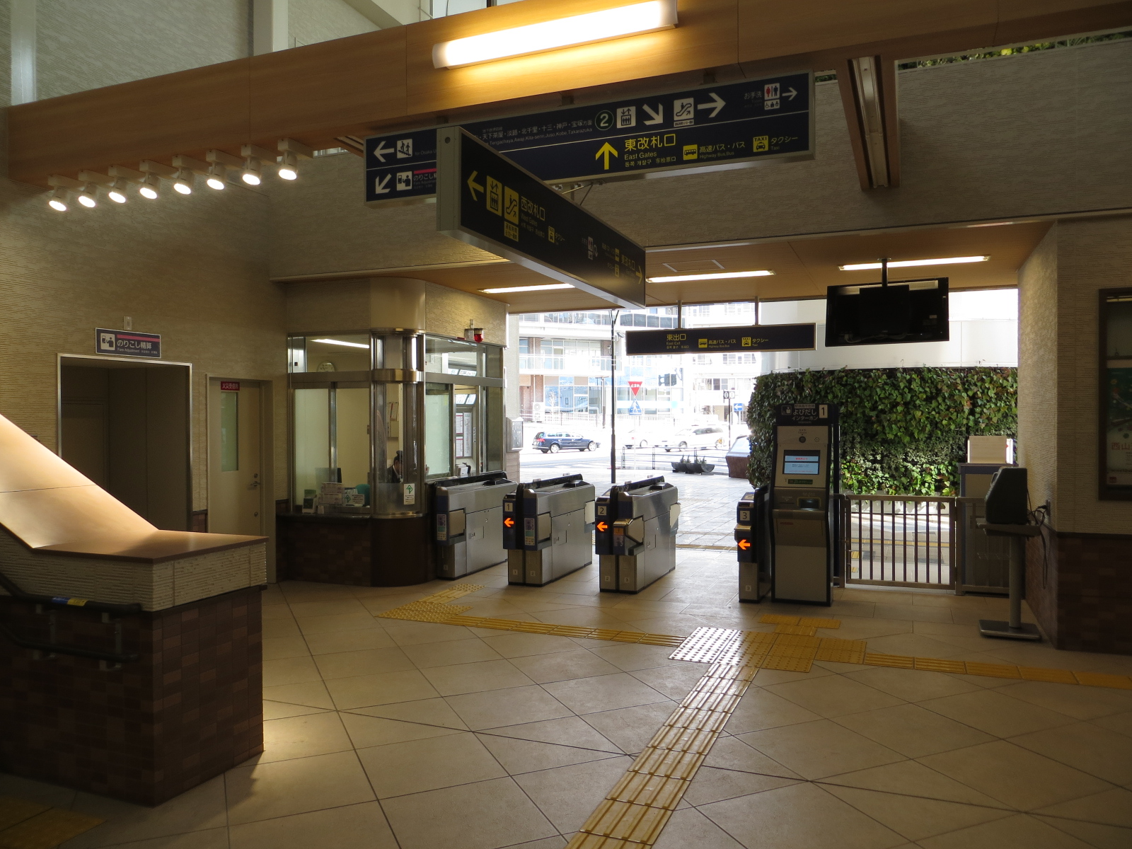 East gates from Nishiyama-tennozan Station (HK76).